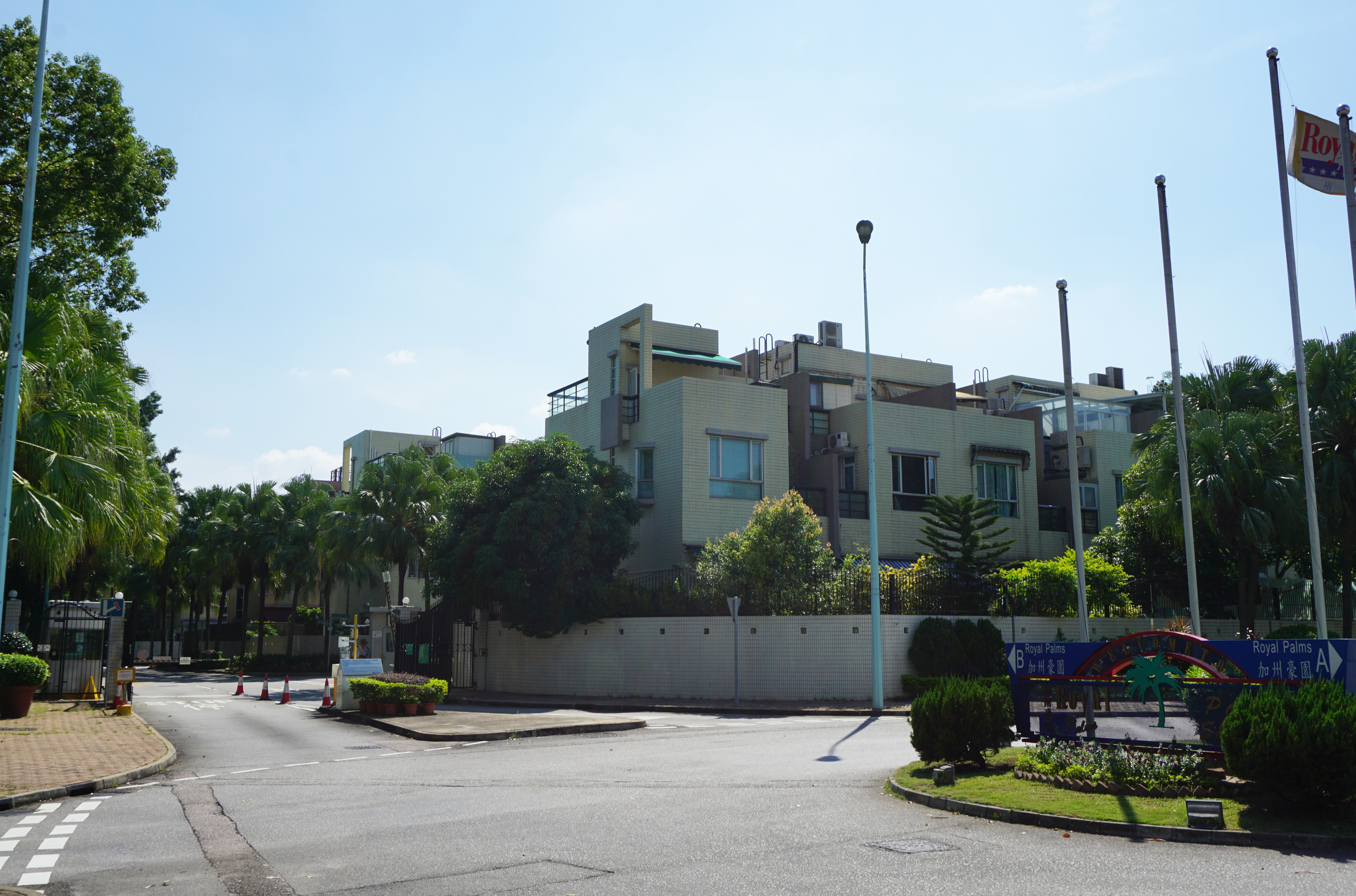 Royal Palms in Wo Shang Wai, Hong Kong.